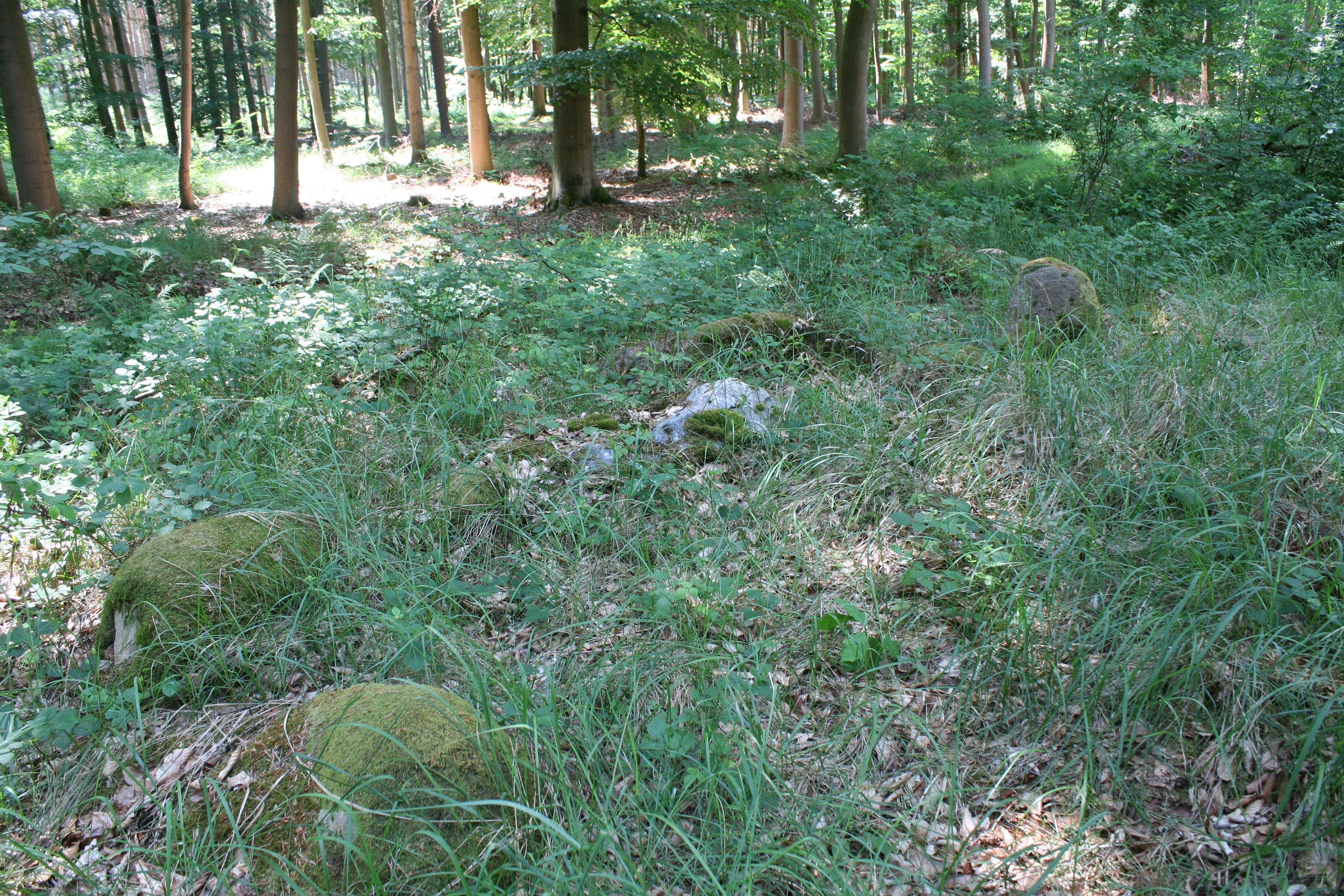 Megalithic tomb Bebertal I 10